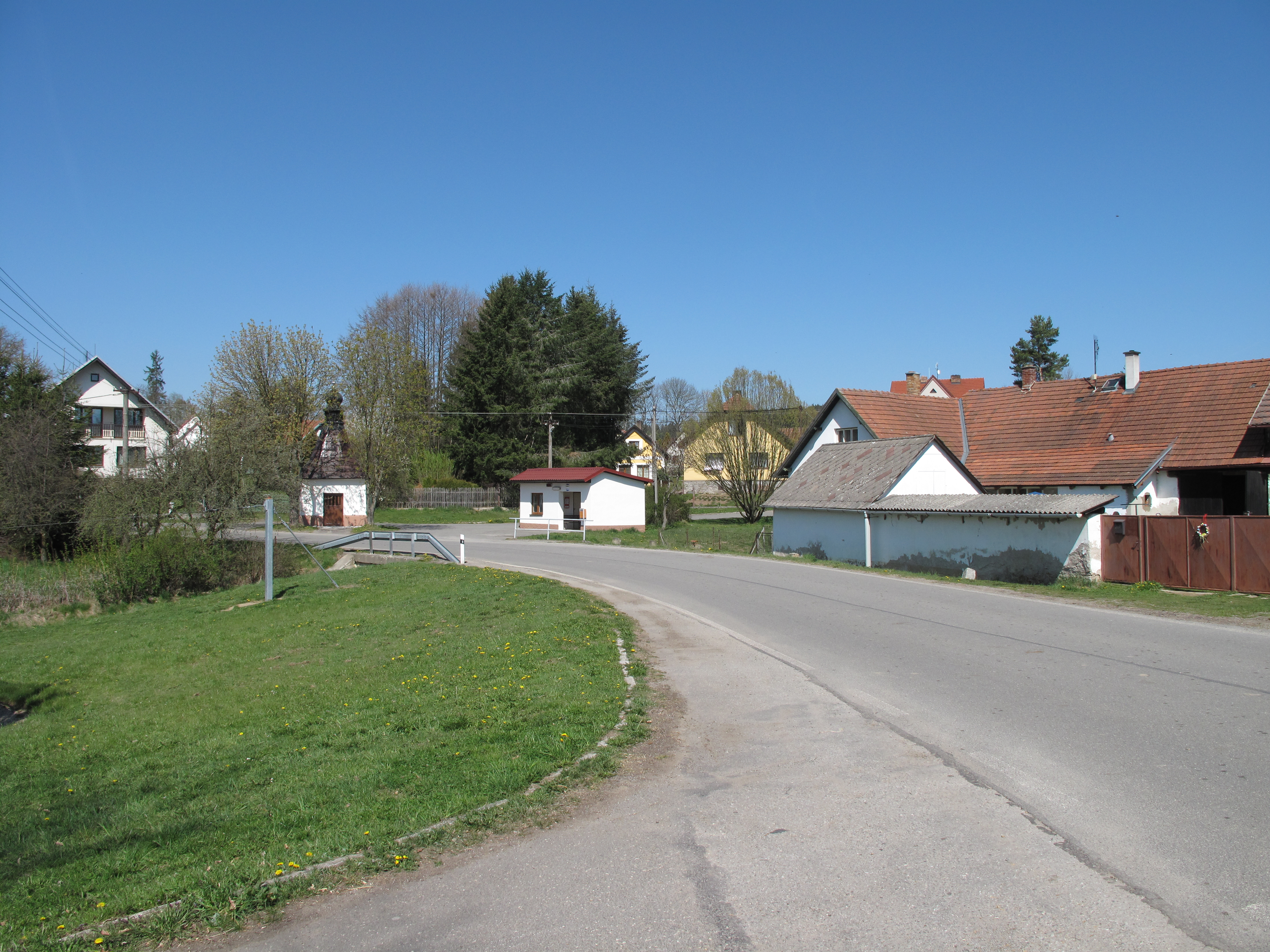 Village square in Malý Ježov.